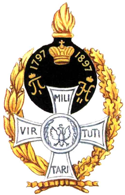 Badge of Samogitsky 7-th grenader Regiment